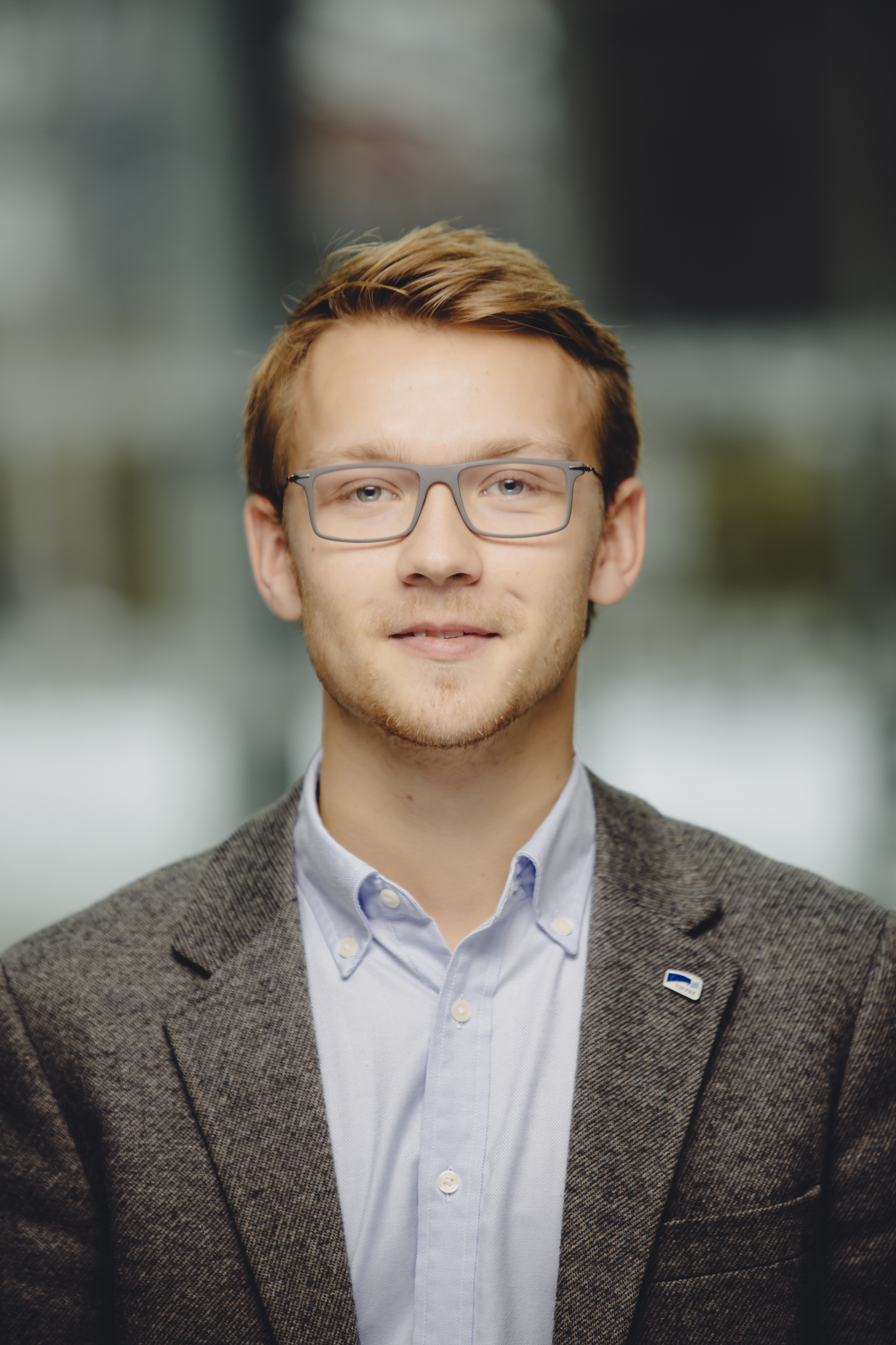 Kristian Støback Wilhelmsen. Foto: Marius Fiskum Bildet kan fritt lastes ned. Flere størrelser er tilgjengelige i menyen til høyre for bildet. Vennligst krediter fotograf. --- This image may be downloaded for commercial and non-commercial use. Various sizes of this image may be found in the menu on the right. Please credit the photographer.